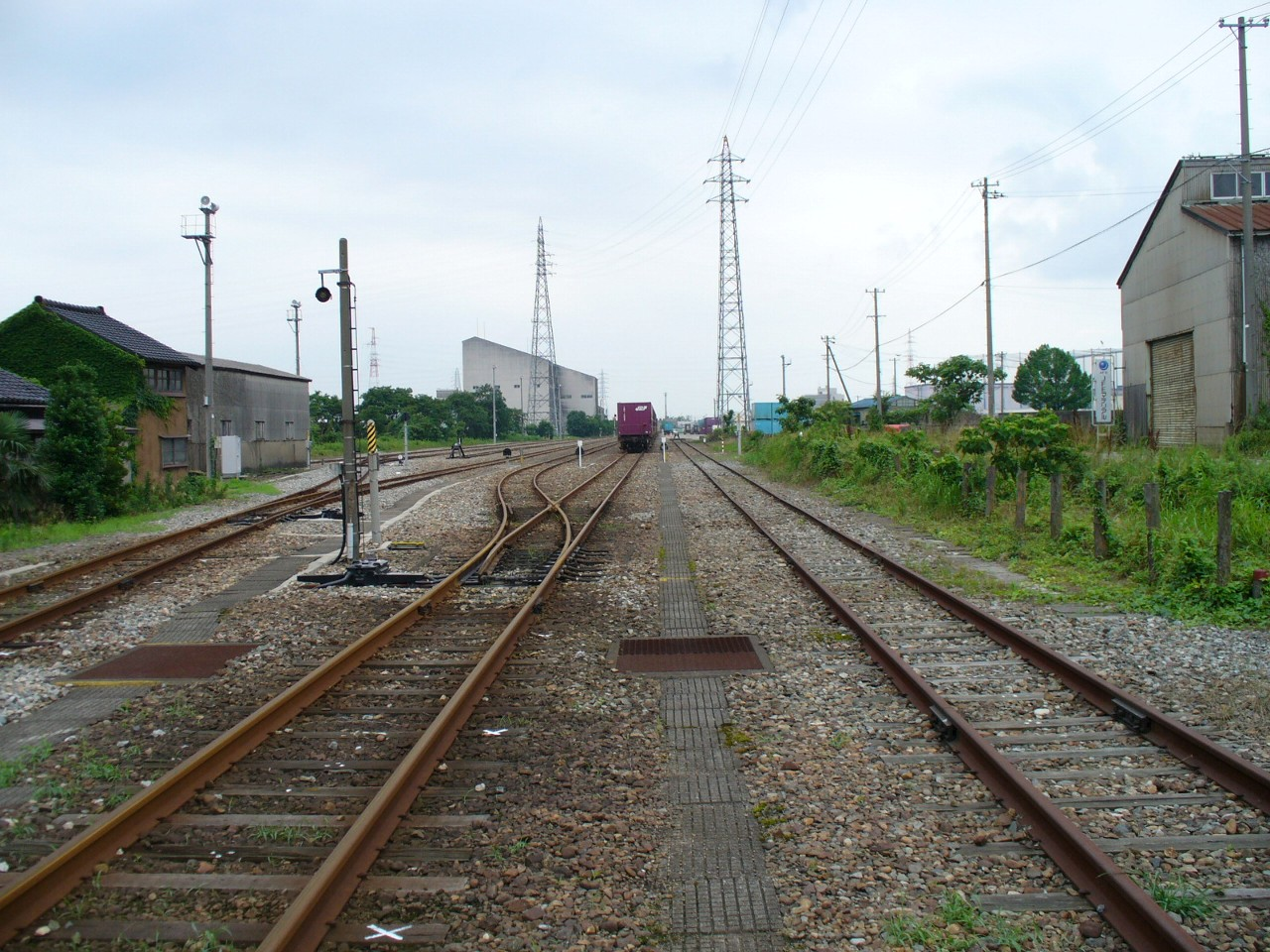 Takaoka freight station seen from a nearby level crossing. Takaoka station is located in the terminal of Shinminato freight line, Takaoka city Toyama prefecture Japan.